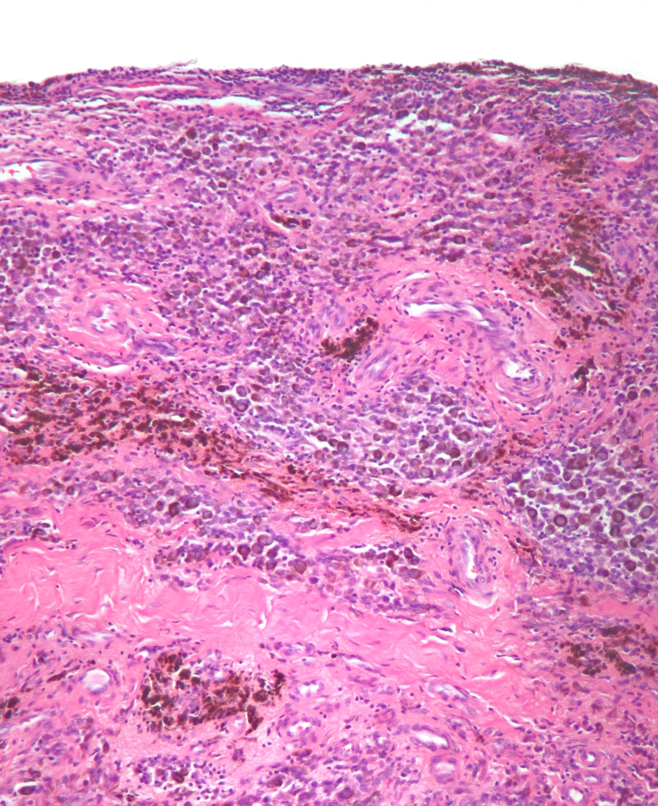 High magnification micrograph of pigmented villonodular synovitis. H&E stain. Related images Low mag.